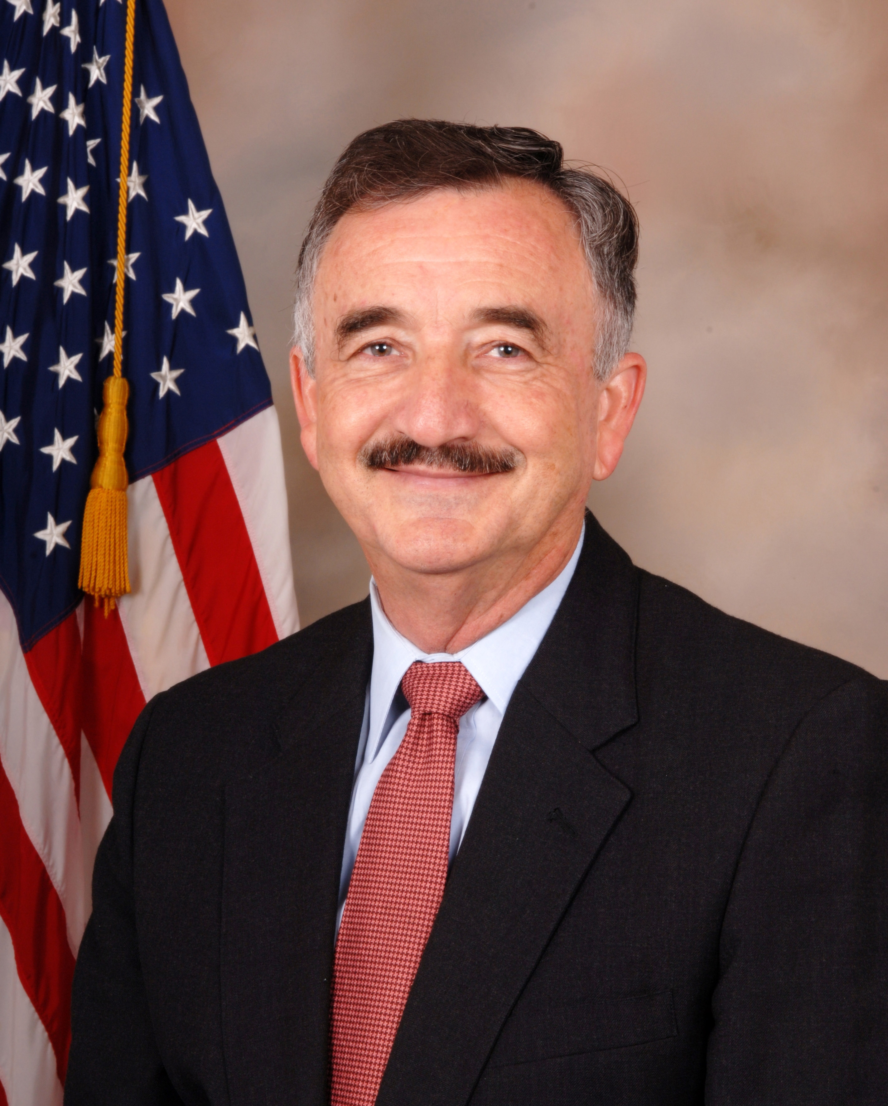 Ciro Rodriguez, member of the United States House of Representatives.